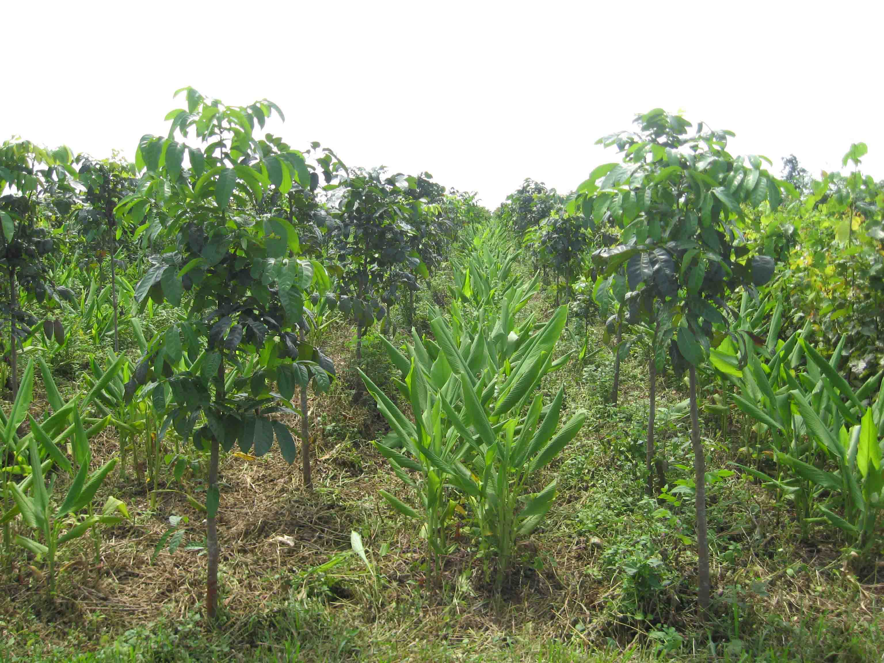 intercropping in forest plantation by NTFP Division